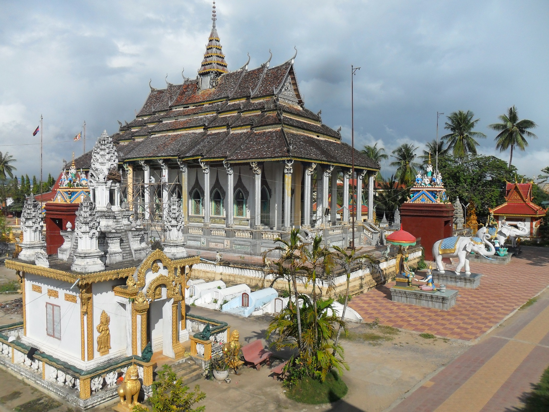 Buddhist temple, Battambang, Cambodia